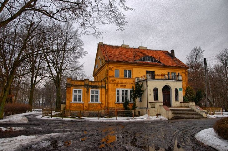 Drzązgowo dworek Mielżyńskich